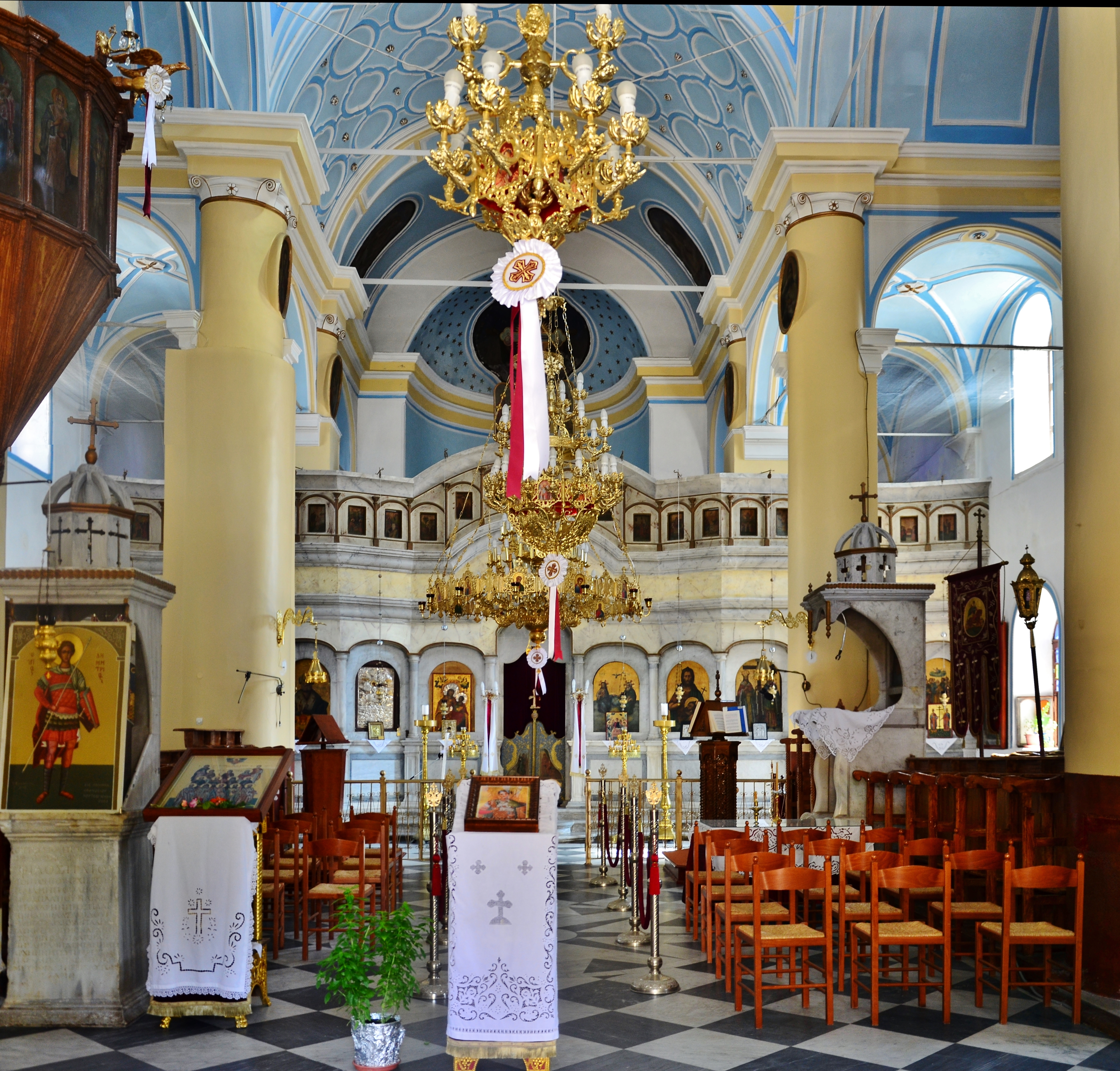 Interior of Saint Demetrius church, Kontopouli, Lemnos Greece